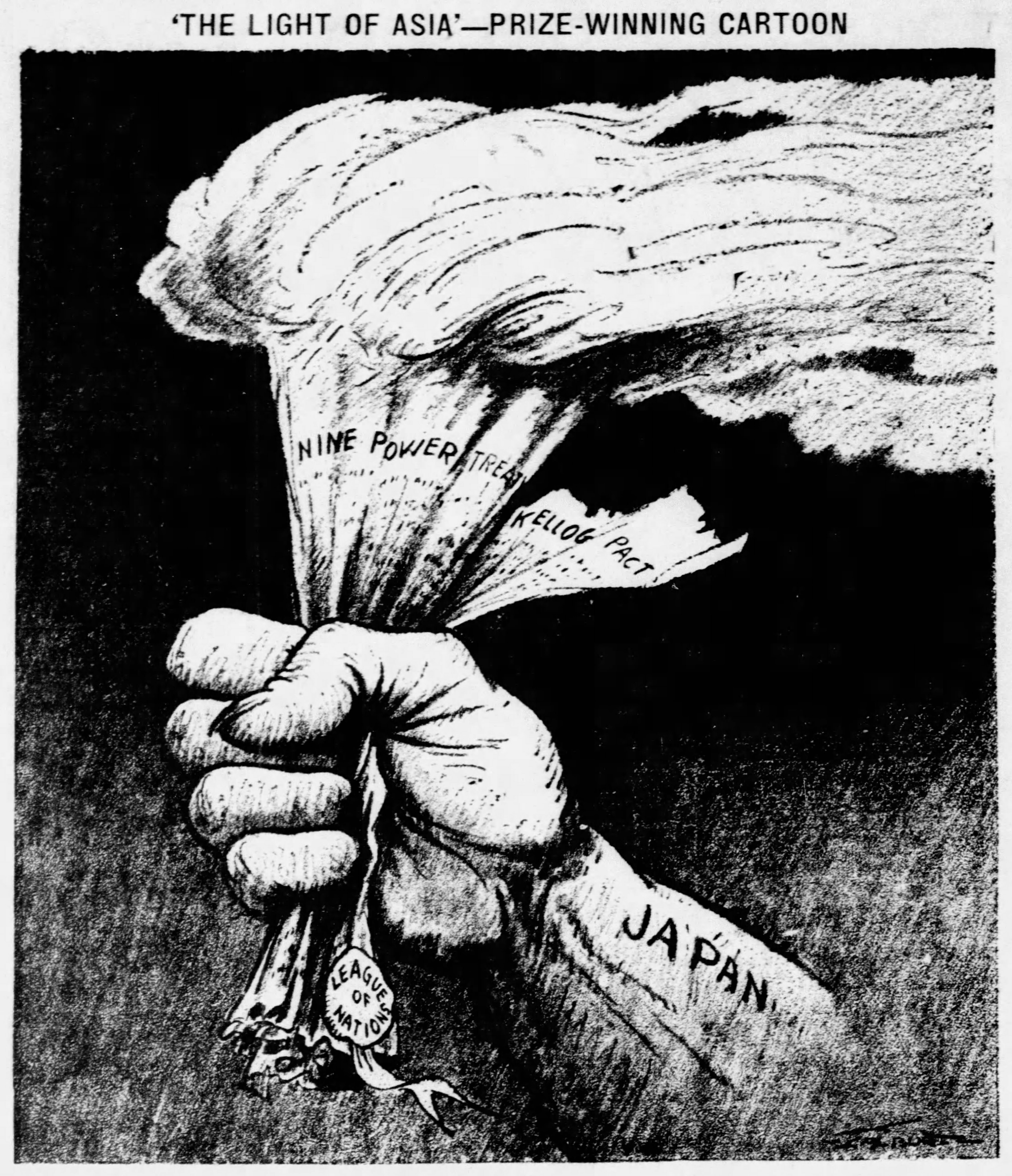 "The Light of Asia", an editorial cartoon commenting on the Japanese invasion of Manchuria, in breach of the Nine-Power Treaty and the Kellogg–Briand Pact. Winner of the 1933 Pulitzer Prize for Editorial Cartooning.